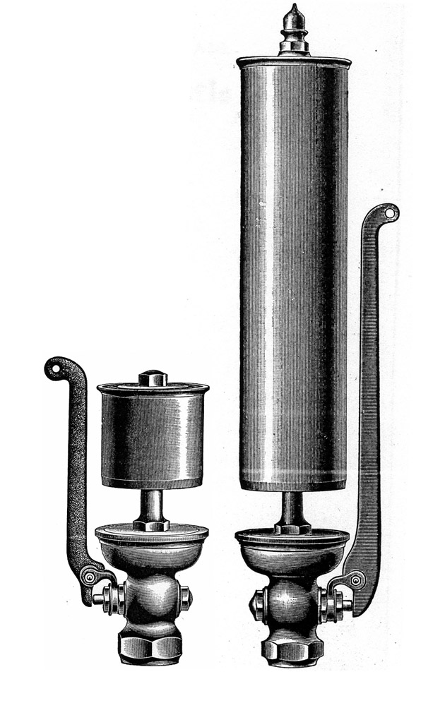 From a 1904 trade cataog